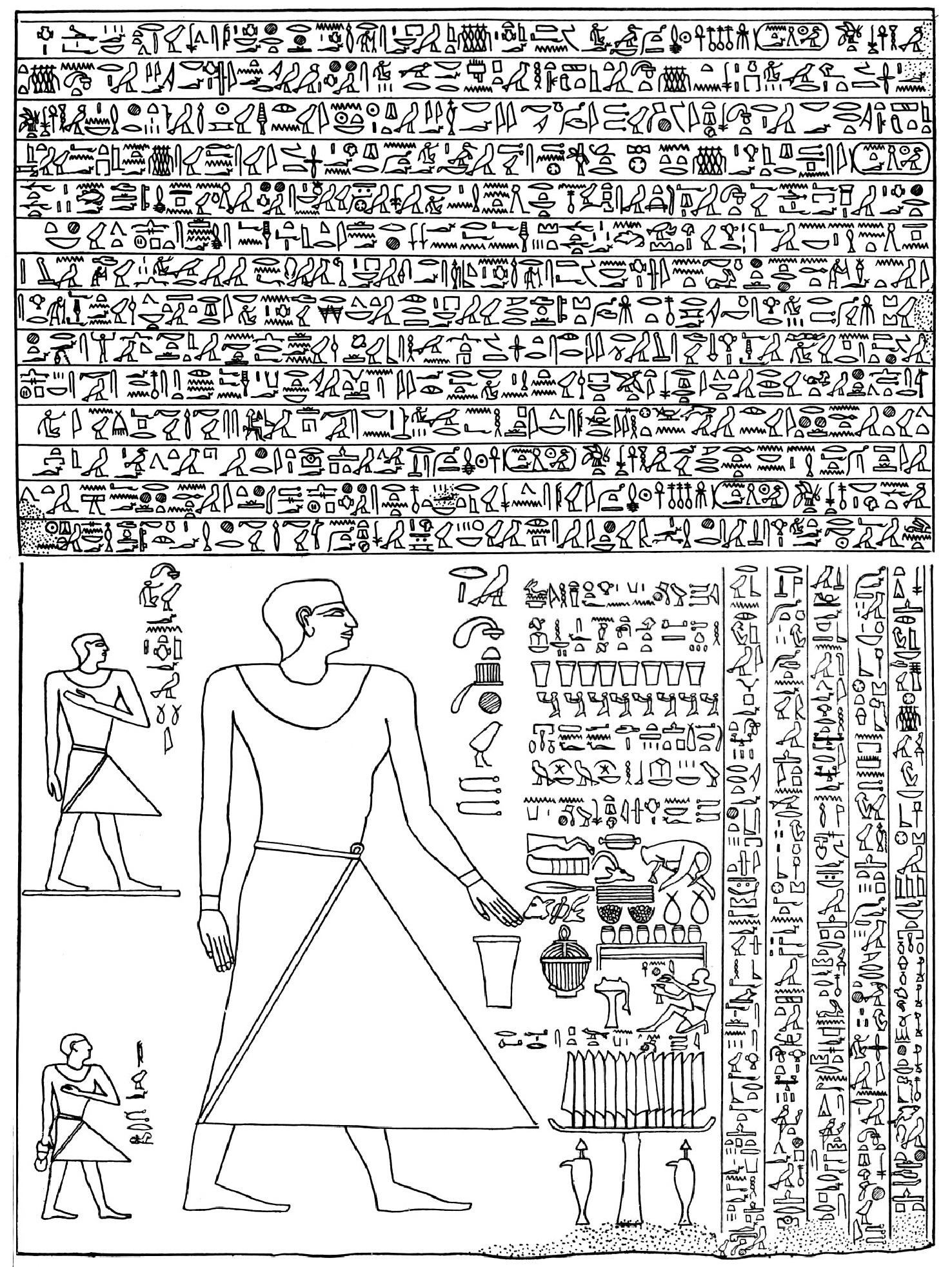 Drawing of the limestone stele of Tjetji (depicted below, the largest man), chief treasurer and chamberlain under the pharaohs Intef II and Intef III of the 11th dynasty; both these kings are mentioned in the inscriptions (see notes). From Thebes, reign of Intef III, 11th dynasty (around 2070 BCE). Original in the British Museum, available here (EA 614).